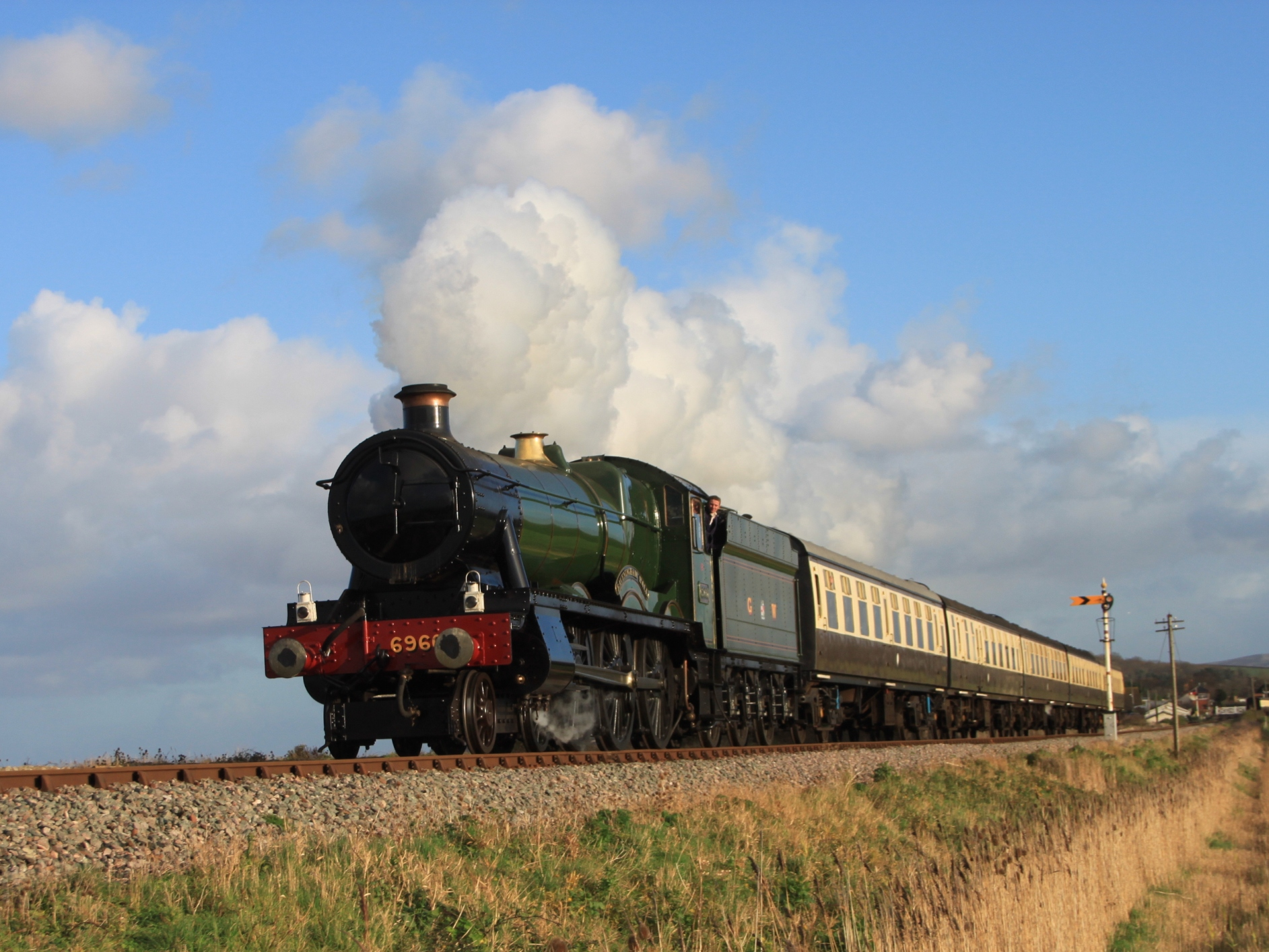 Newly restored 6960 Raveningham Hall pulls away from Blue Anchor station on its way to Minehead, Somerset, England.